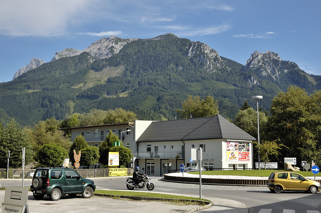 Roundabout in Hall bei Admount